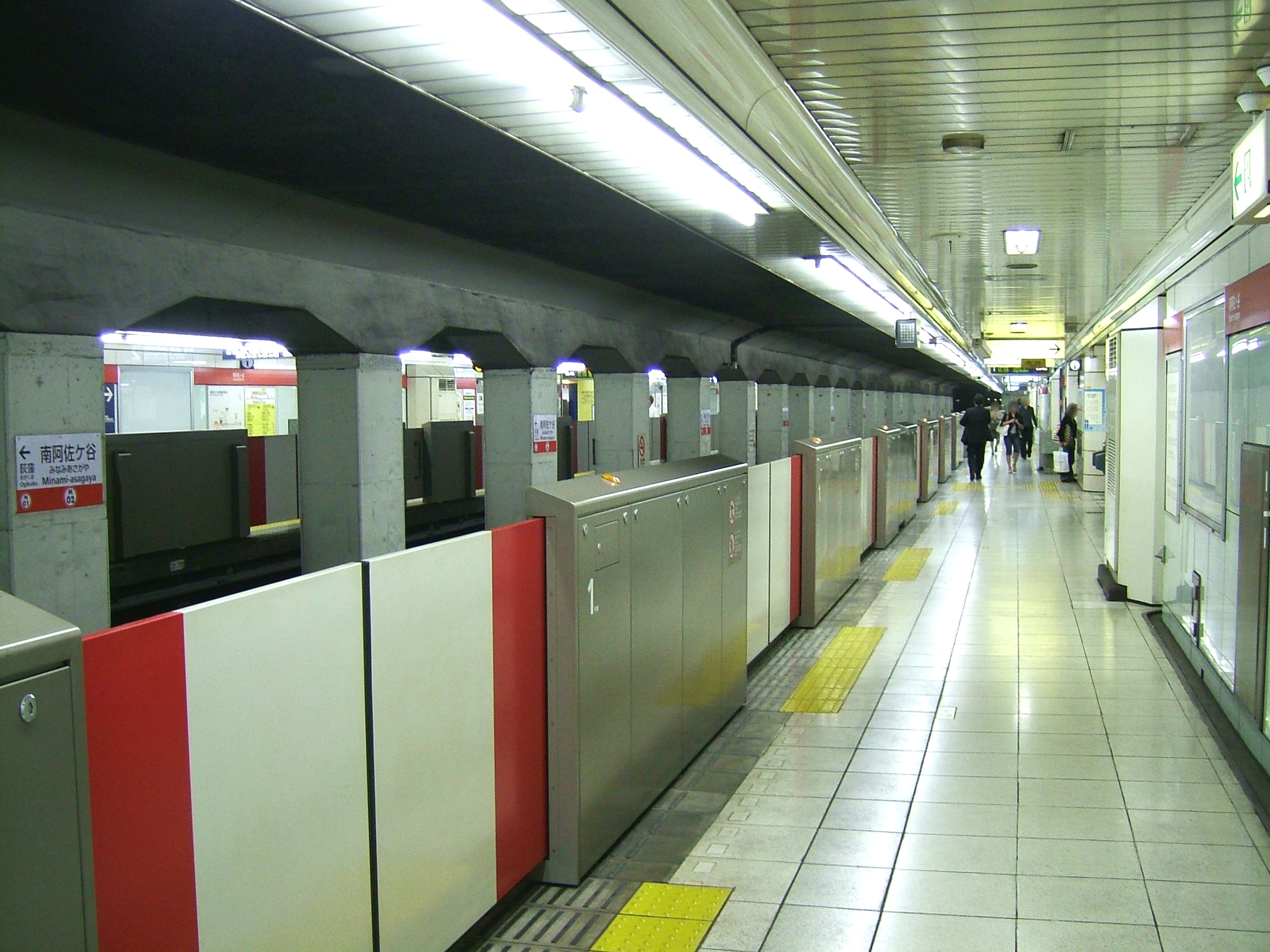 The platforms at Minami-Asagaya Station on the Tokyo Metro Marunouchi Line in Tokyo